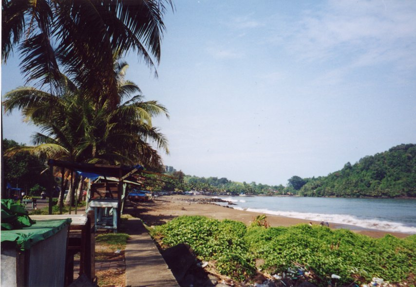 Photo taken by MichaelJLowe of Padang Beach, West Sumatra, Indonesia